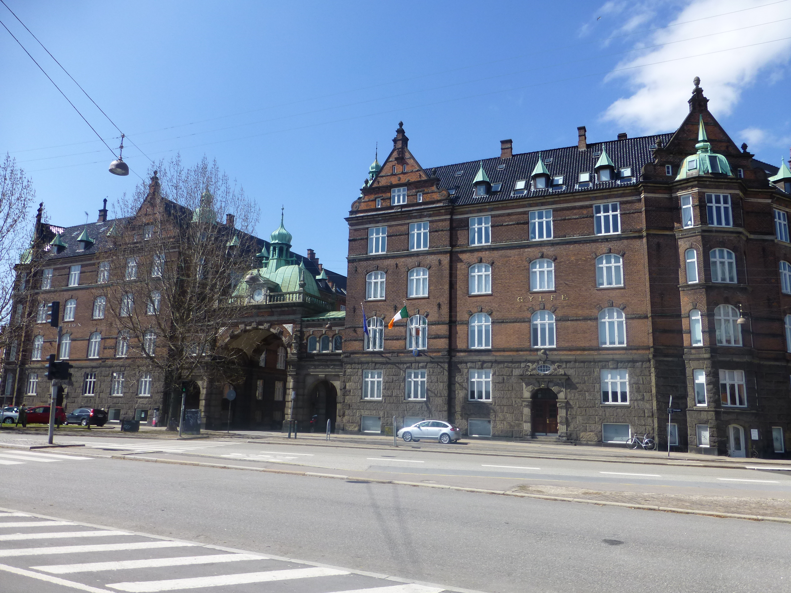 The twin buildings Gefion og Gylfe in Østerbro in Copenhagen. Gylfe at the right houses the embassy of Ireland.